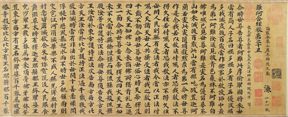 China; Handscroll; Calligraphy